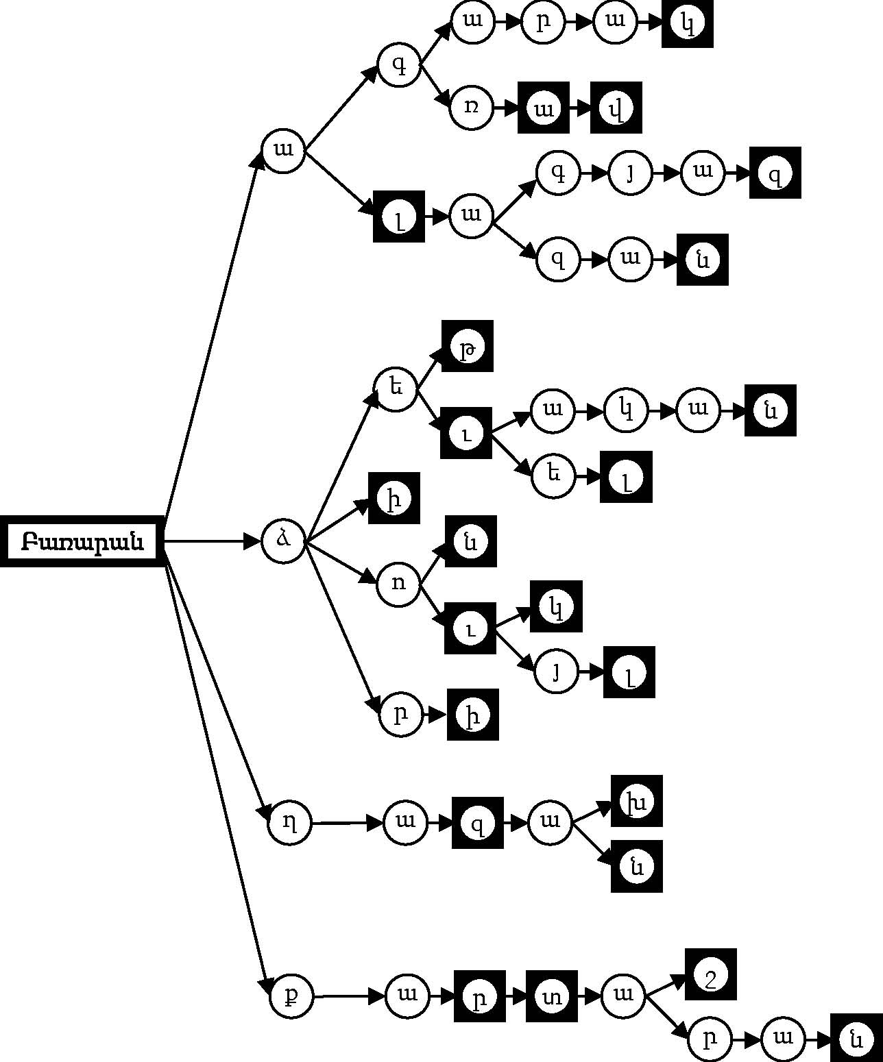 Recursion Dictionary